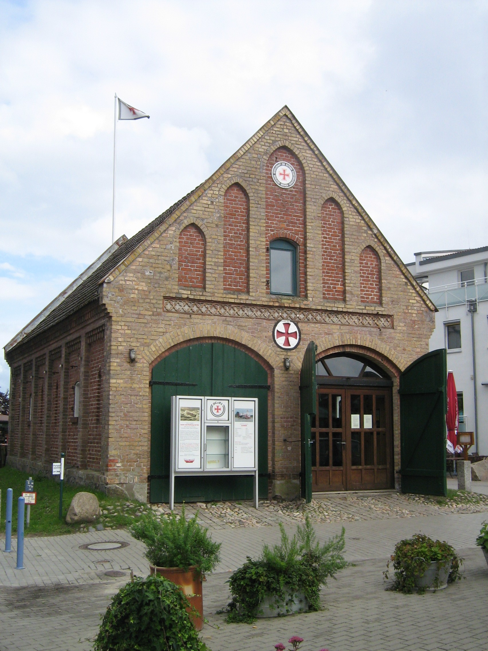 the rescue hovel in Zingst